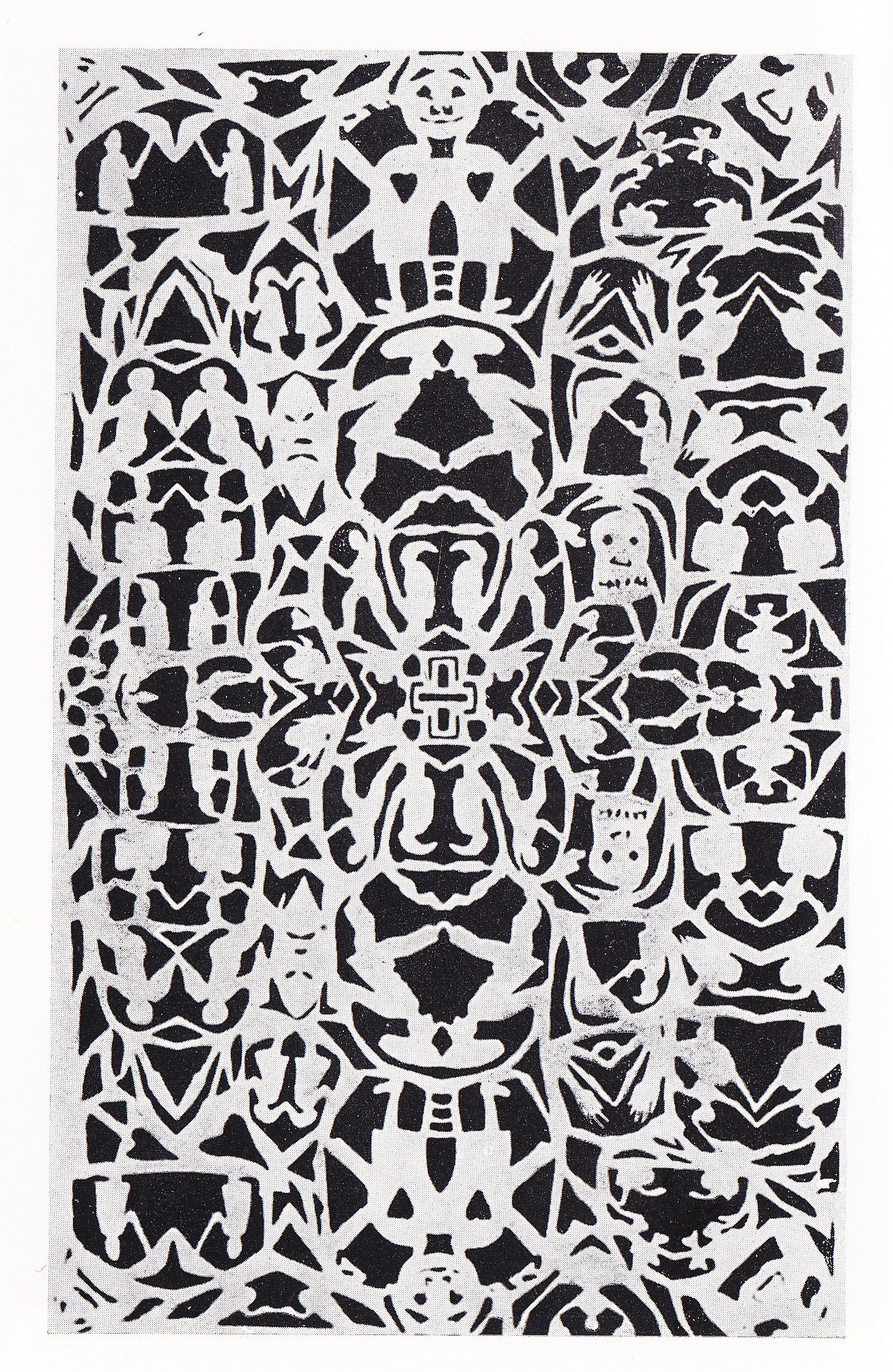 Hans Christian Andersen's paper cut (silhouette) created for Mrs. Melchior in 1874